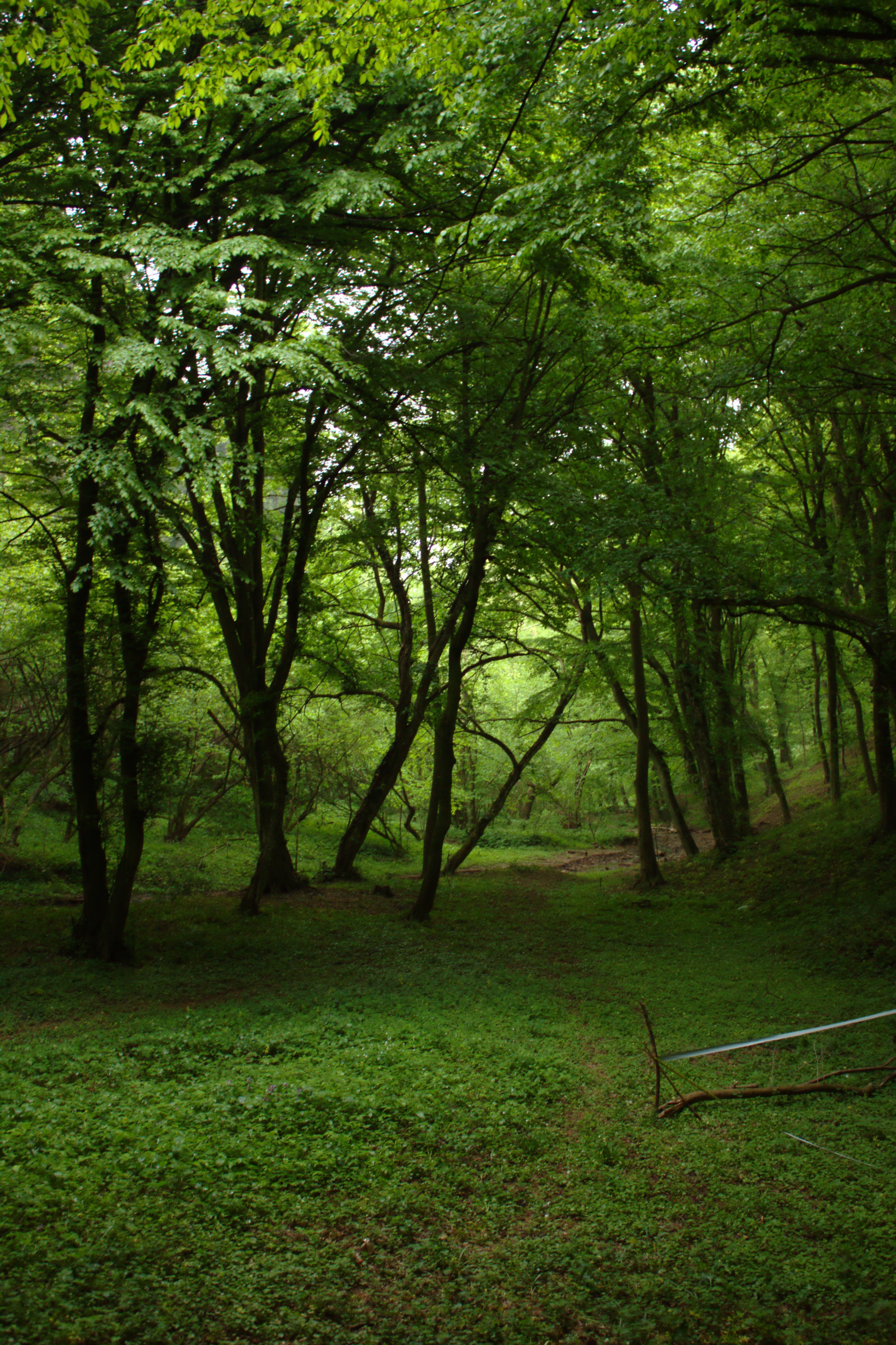 A road throught the valley of Ešikovački potok creek towards Stražilovo during a spring evening; Fruška Gora National Park, Serbia. A marked fireplace can be seen on the right